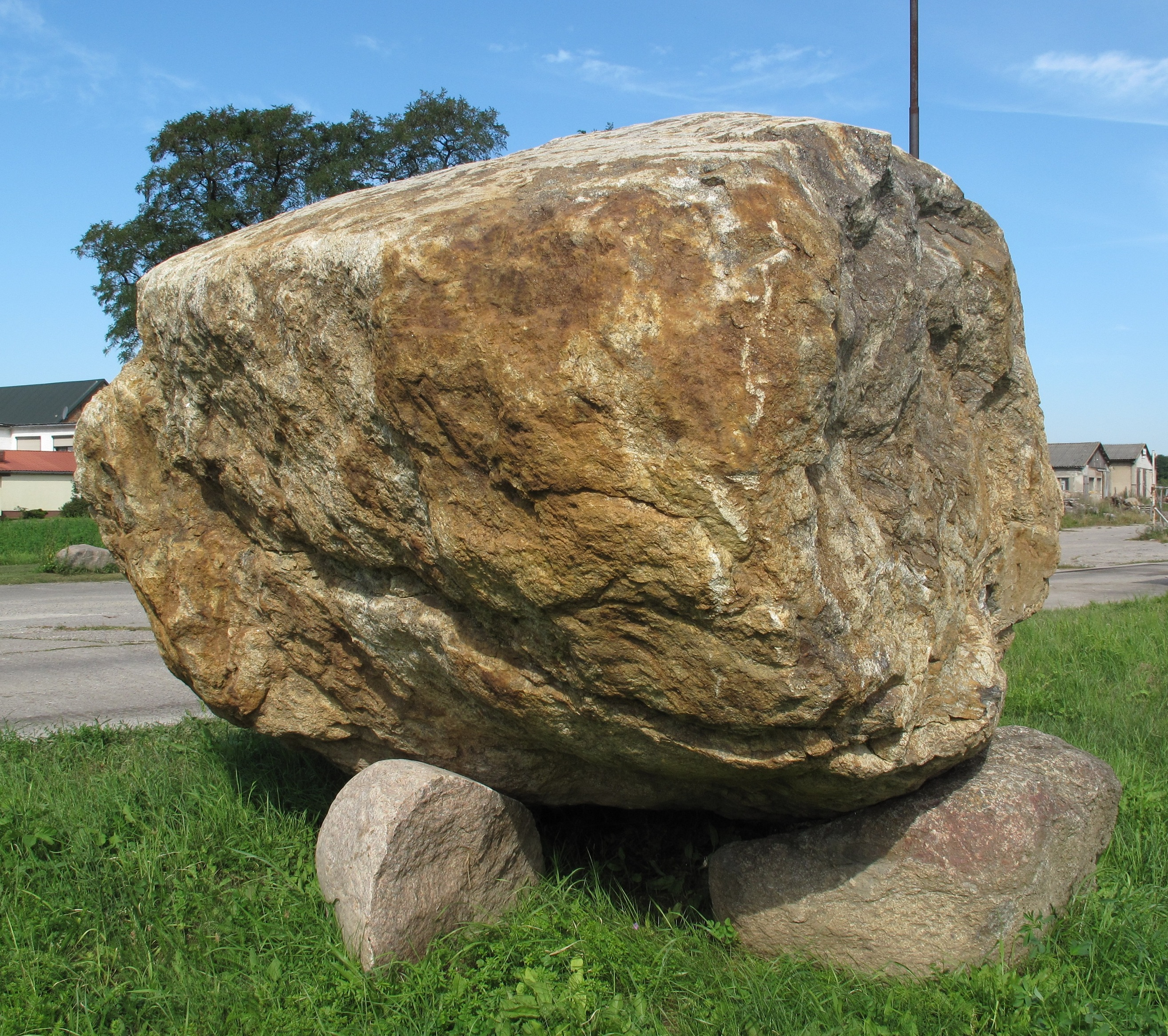 Glacial erratic in Hohenstein. The stone was found in 2011 by the construction of the OPAL pipeline between Gladowshöhe and Hohenstein. Its weight is approximately 24 tons, its volume approximately 9,2 cubic metres. The village Hohenstein is a civil parish (Ortsteil) of the town Strausberg in the district Märkisch-Oderland, Brandenburg, Germany.